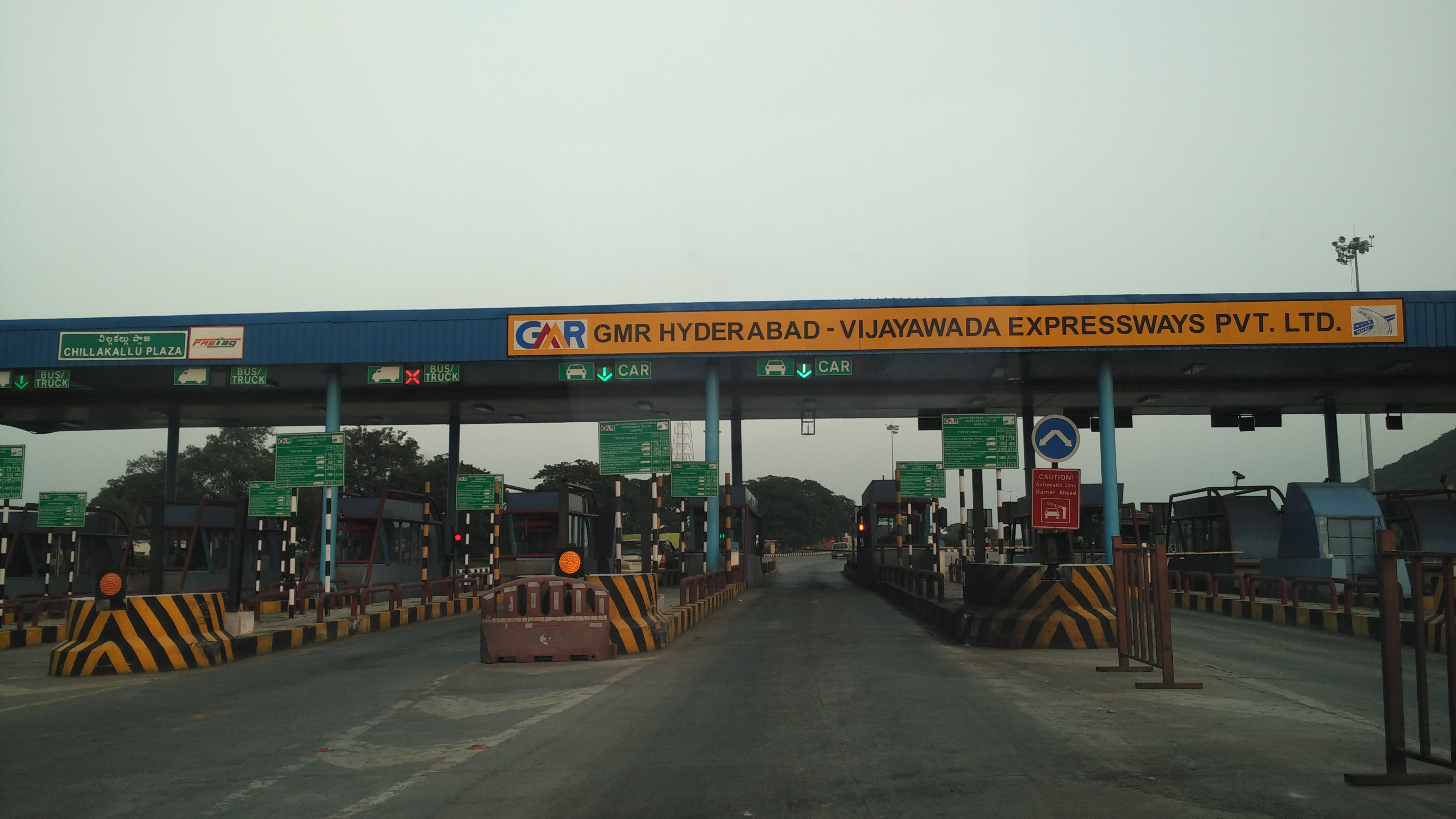 Toll Plaza near Chinnakallu village on National Highway 9 (New NH 65), jaggayyapeta mandal, krishna District